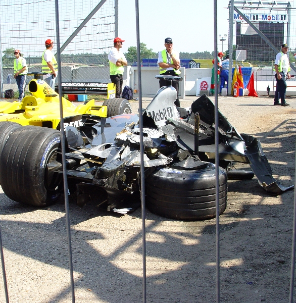 Kimi Räikkönen's McLaren MP4-17D (left) & Ralph Firman's Jordan EJ13 (right) at the 2003 German Grand Prix